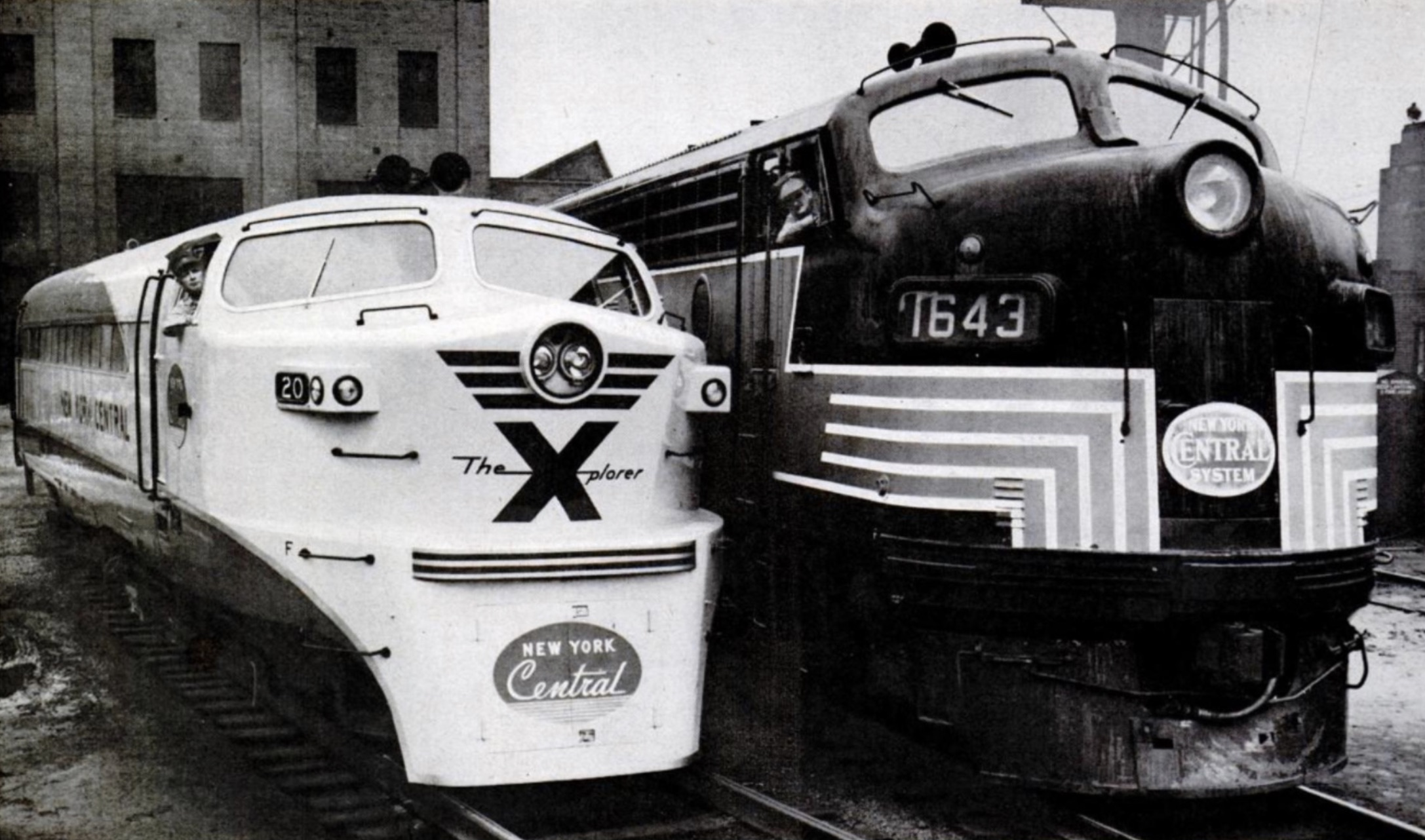 Low slung Baldwin RP-210 aside GM EMD F-7, New York Central Collinwood Shops, August 15, 1956